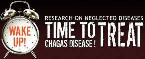 Logo of the campaign for the centenary of Chagas disease.